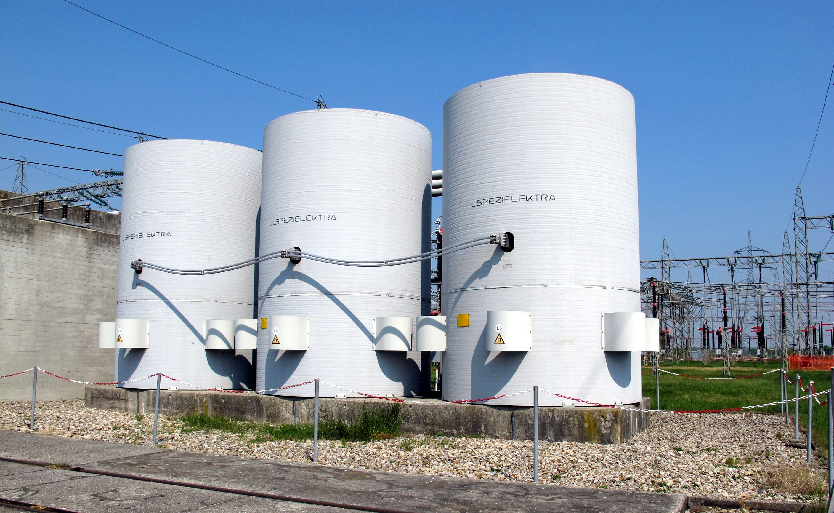 Three-phase air choke rated at 100 MVAR, Dürnrohr substation, Austria. Has warning sign because of high stray magnetic fields. The line connecting the coils in the foreground represents the neutral connection of the three coils.